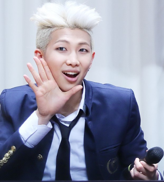 Rap Monster (Bangtan Boys) at a fanmeet in Yongsan on February 23, 2014.